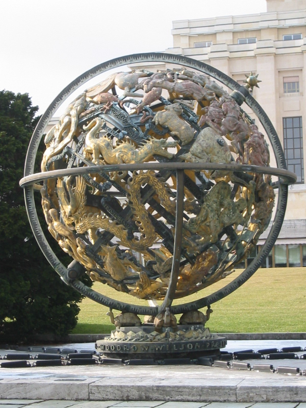 Sculpture in the garden of the ONU building, Geneva.